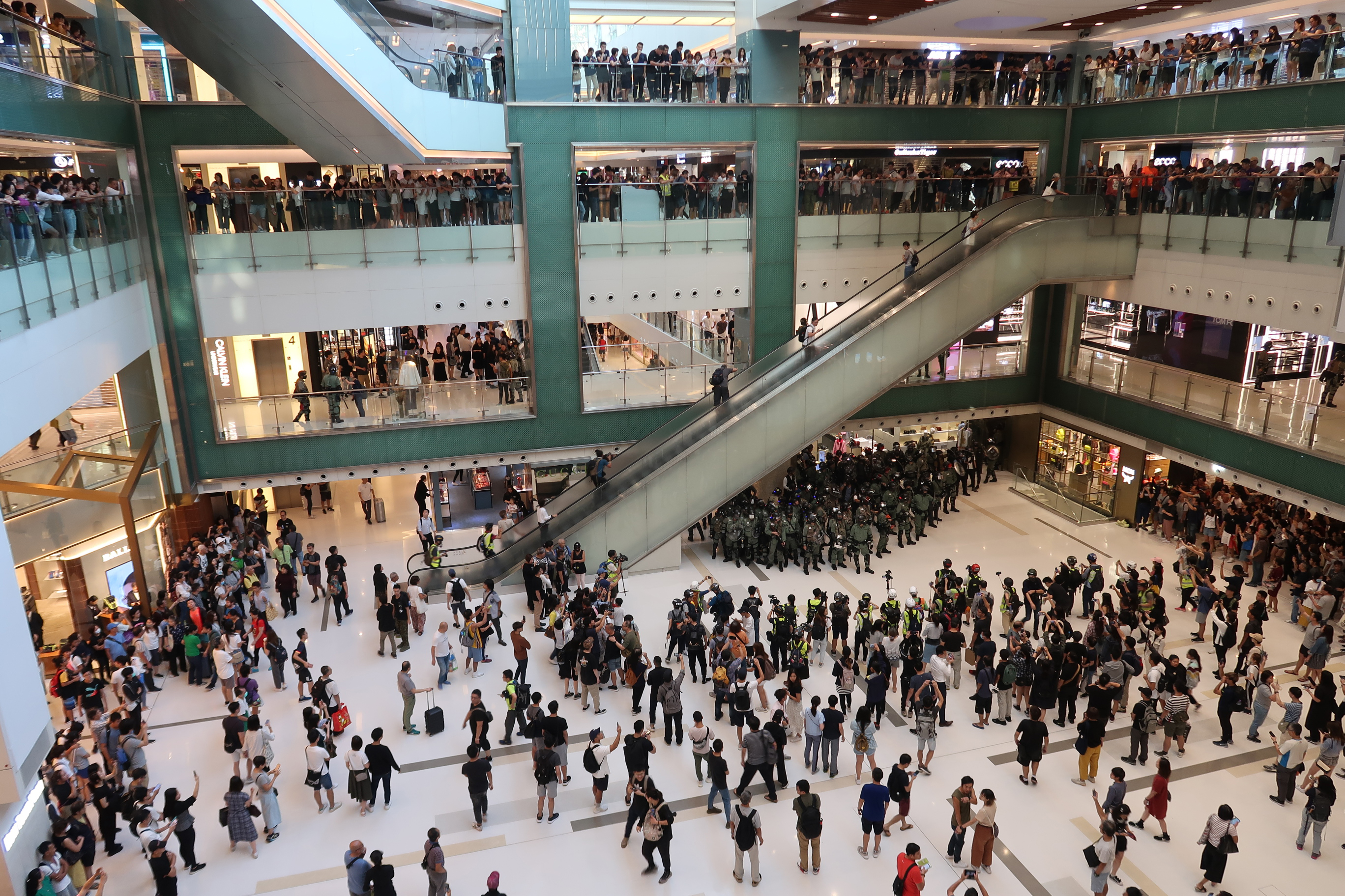 Police force in New Town Plaza